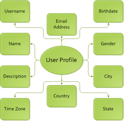 Information Model for StumbleUpon's User Profile